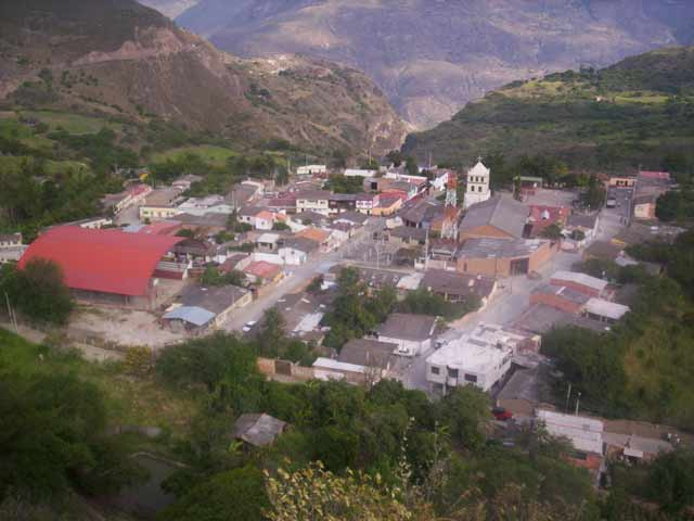 Tipacoque, Colombia, picture by Juan David Parra